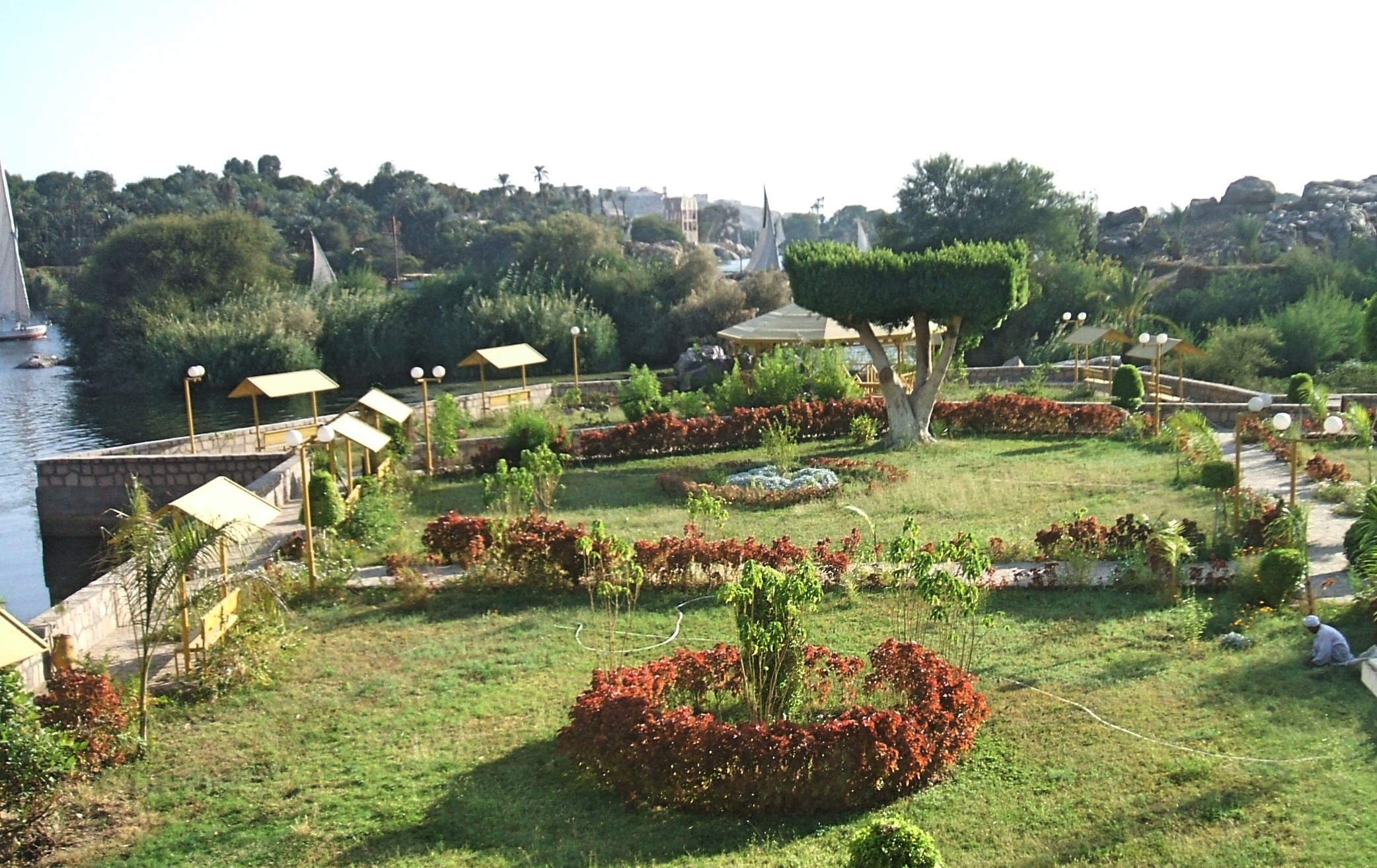 Aswan (Egypt): Kitchener's Island This is an image with the theme "Africa on the Move or Transport" from: Egypt